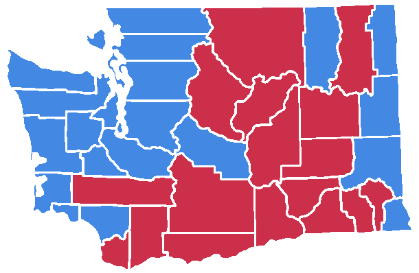 County map of WA senate election 1998